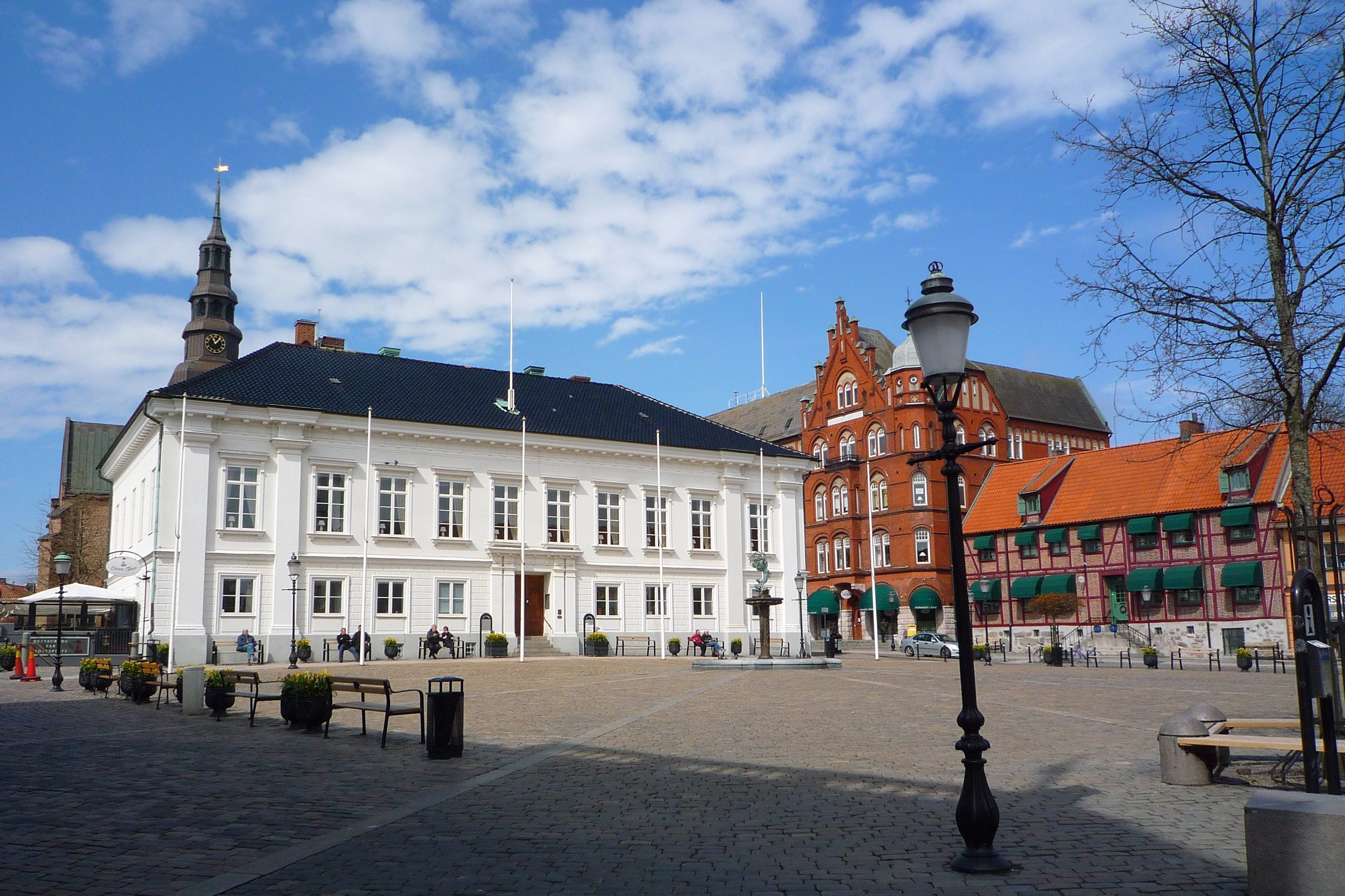 Stortorget (the main square) in Ystad